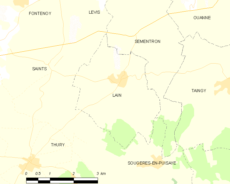 Map of French municipality Lain